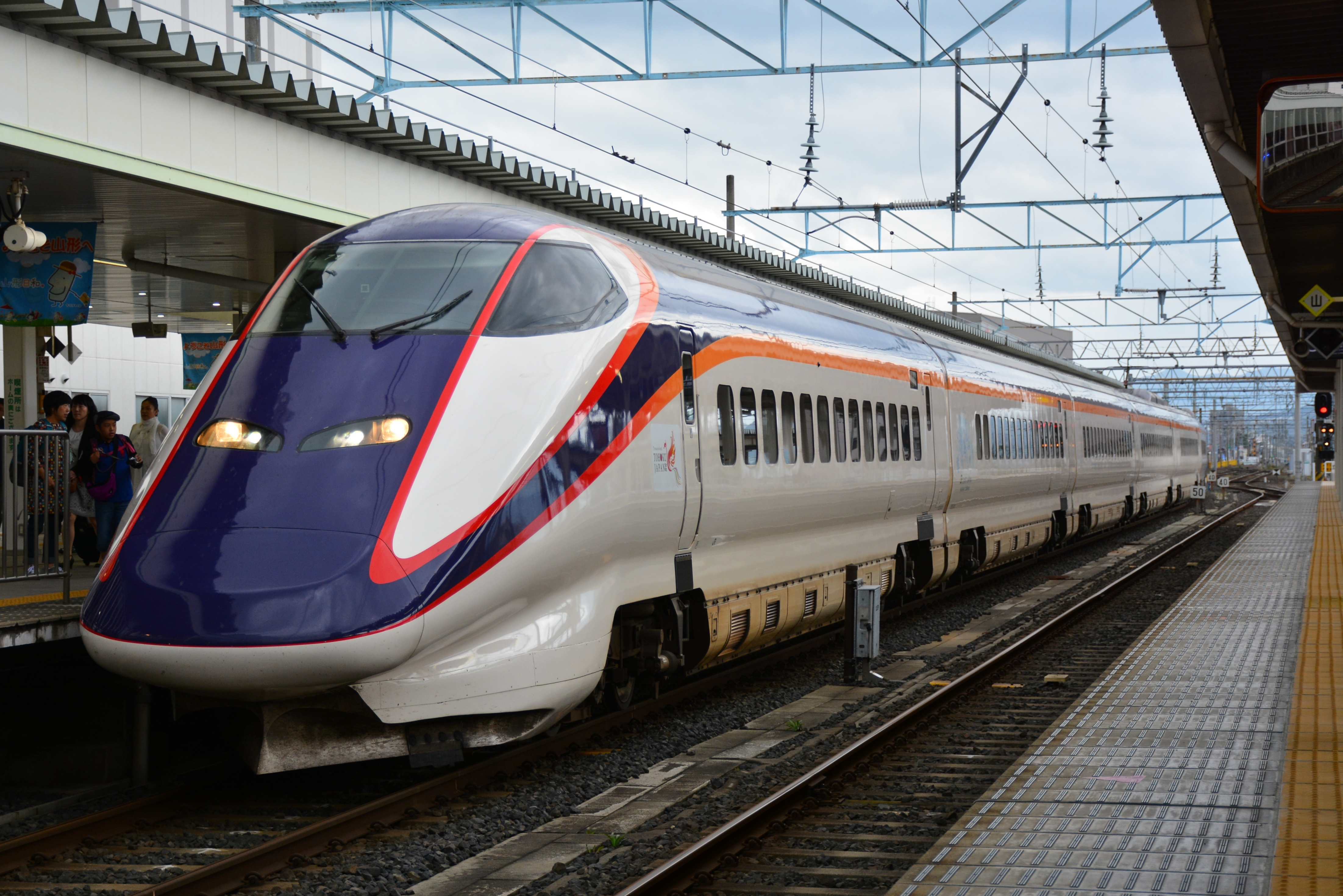 JR East E3-2000 series mini-shinkansen EMU set L70 at Yamagata Station